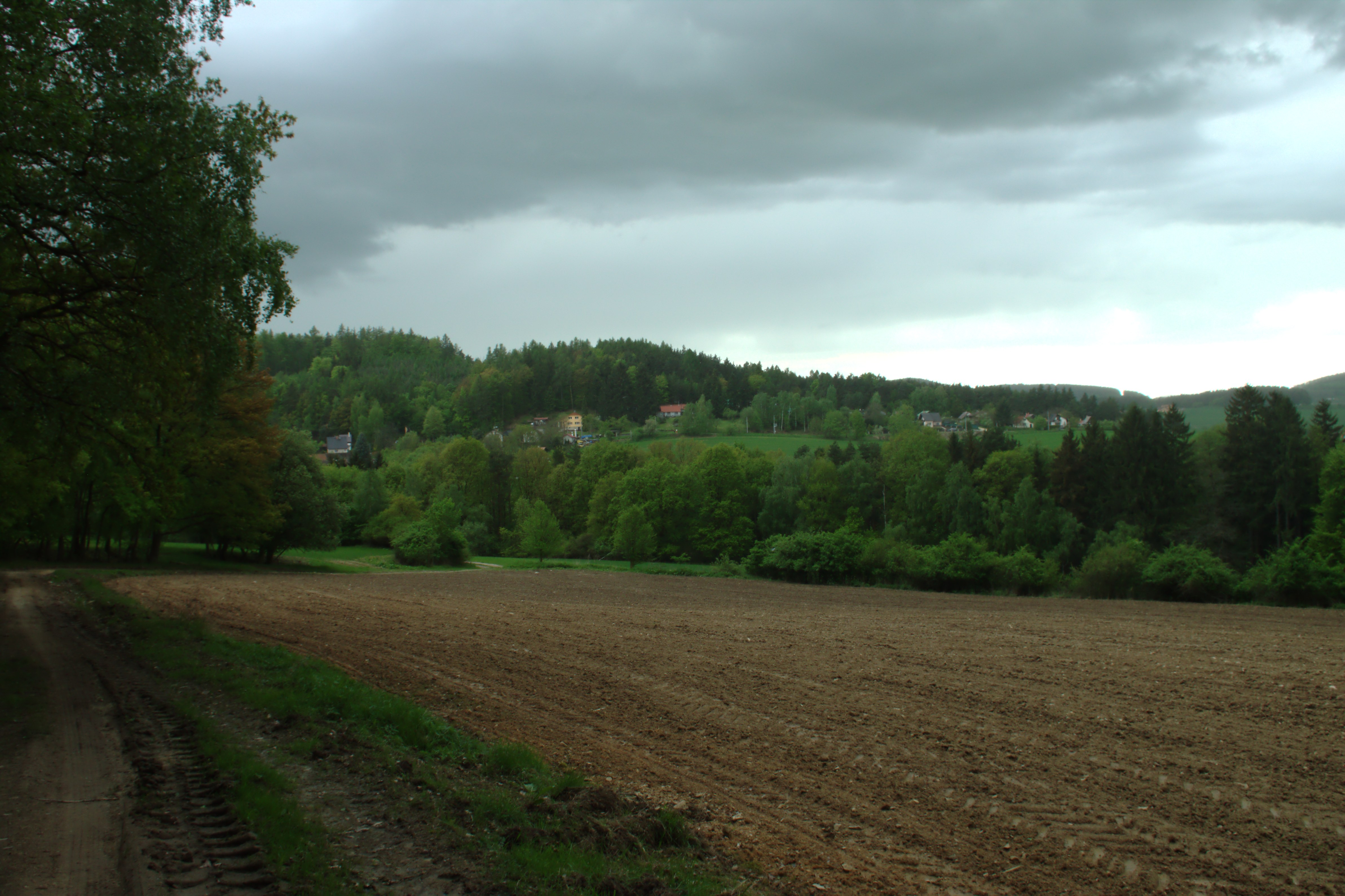 Bučina settlement near the village of Vranov, Benešov District, CZ